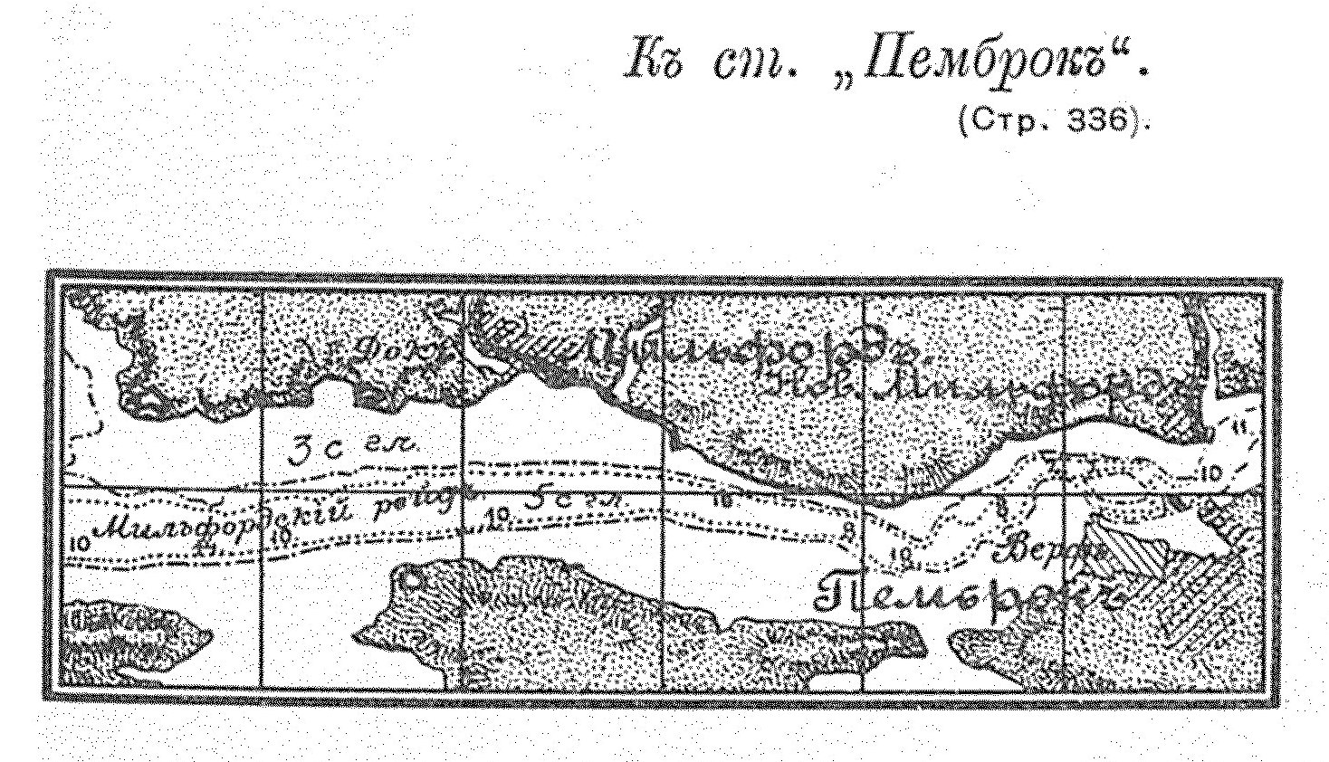 Old map of Pembrokeshire